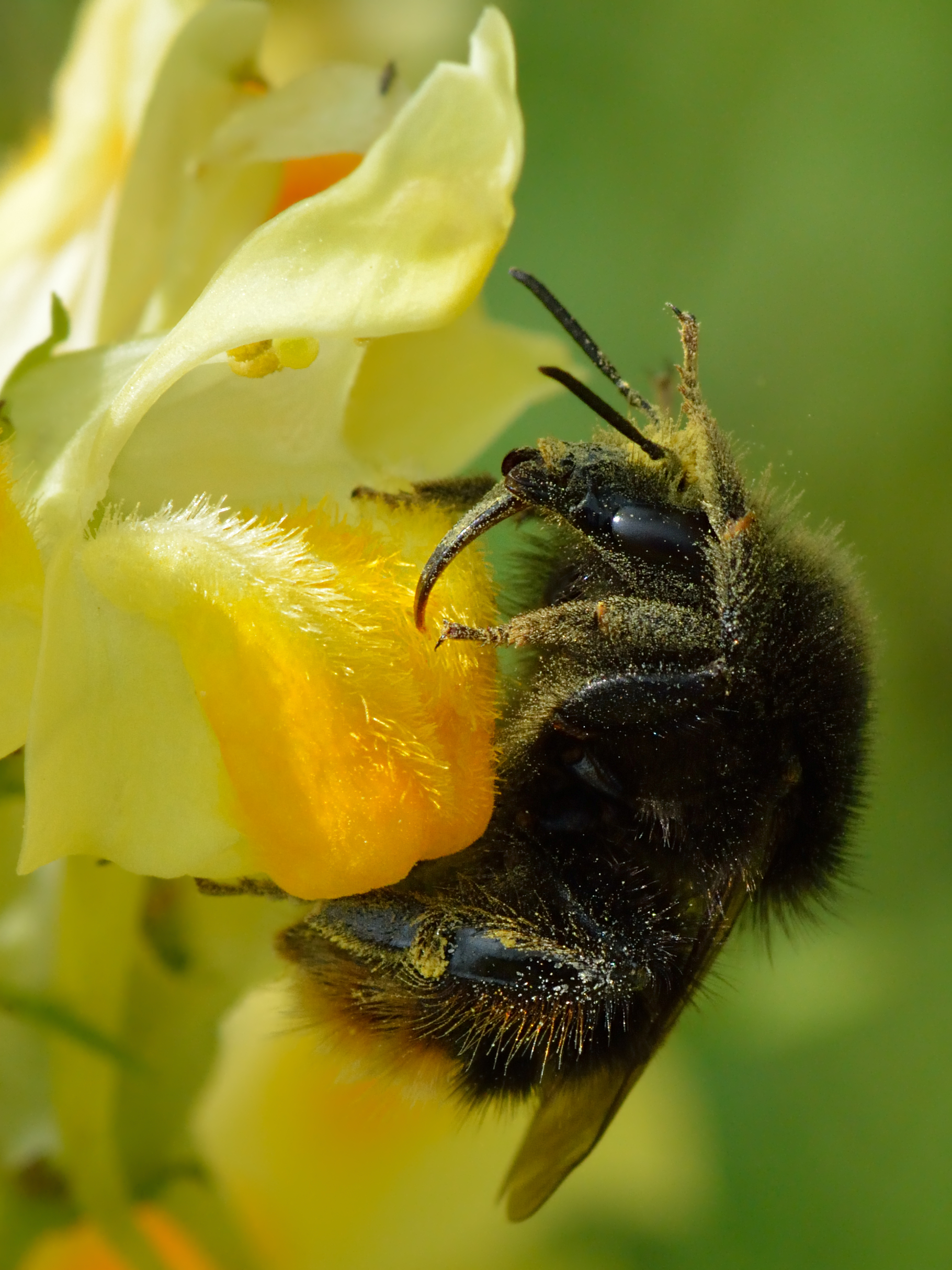 Red-shanked carder bee (Bombus ruderarius) on the common toadflax (Linaria vulgaris). Valingu, Northwestern Estonia.